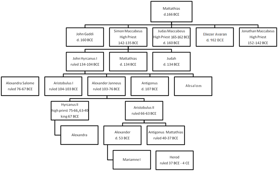 The Maccabean dynasty from Mattathias to Herod